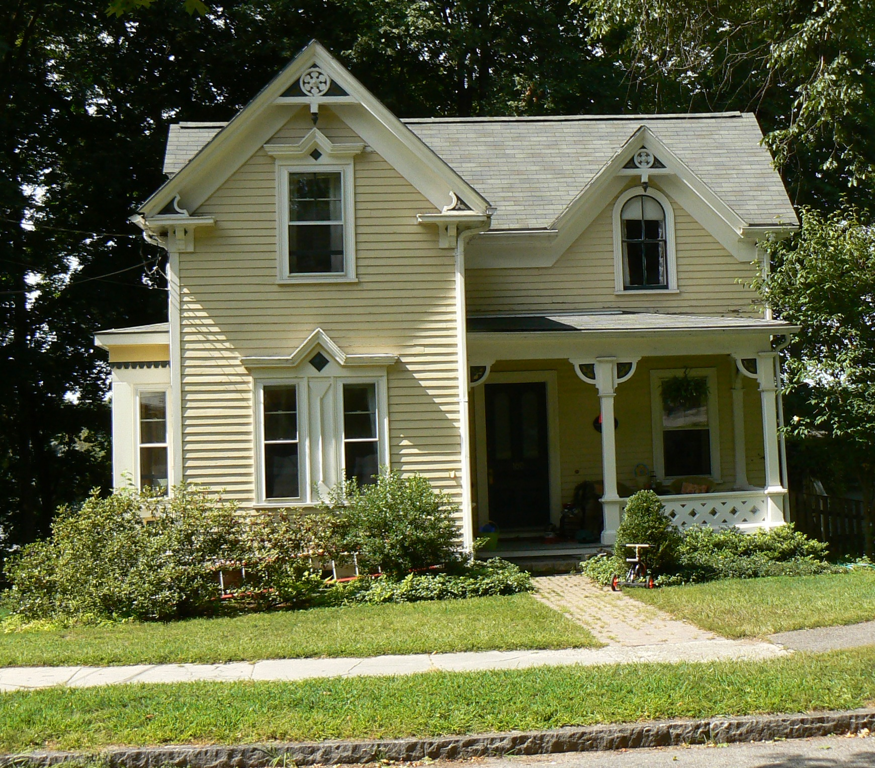 A photo of the historic Thomas Swadkins House in Arlington, Massachusetts.